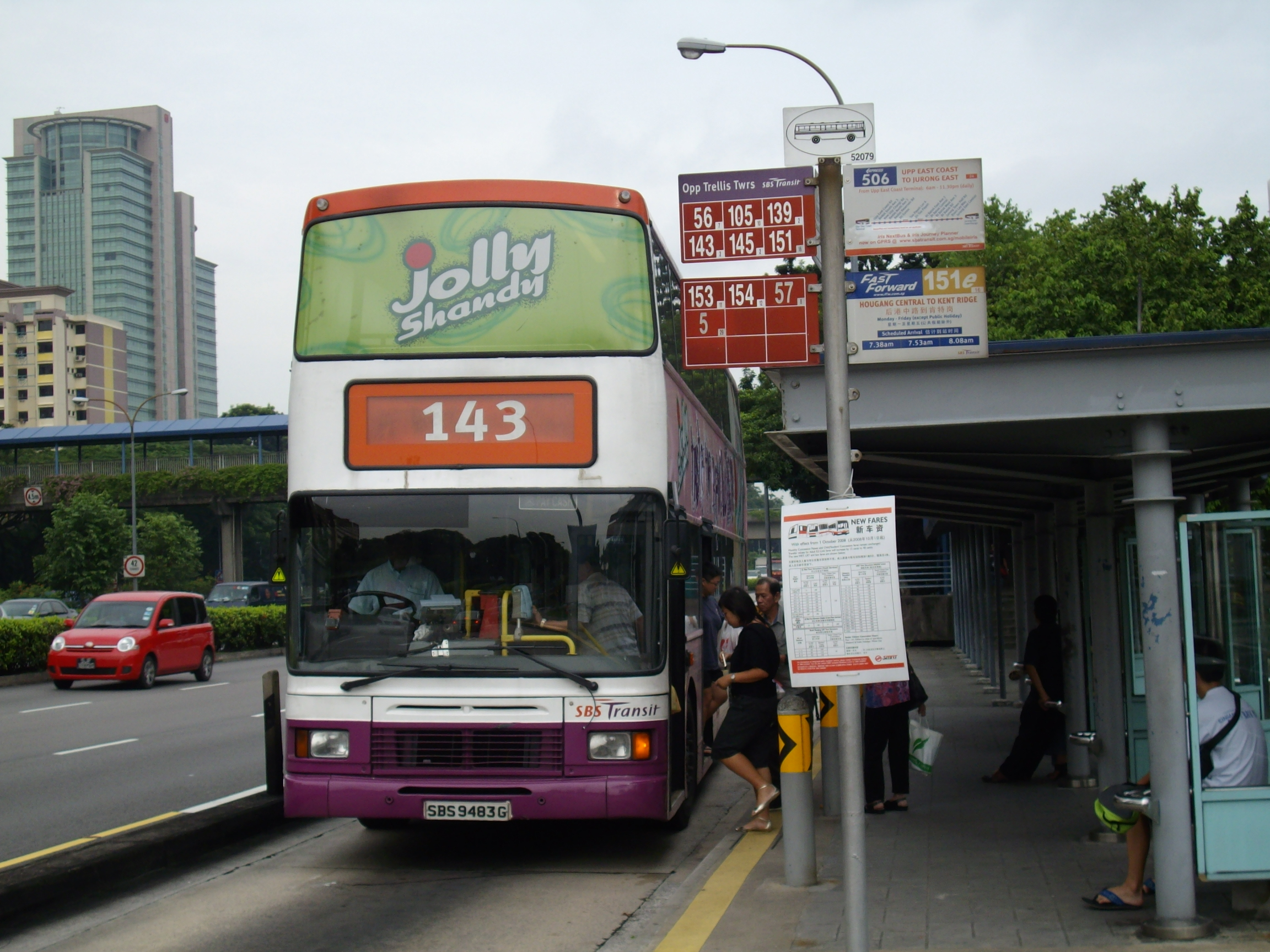 Volvo Olympian 3-Axle, Route 143.